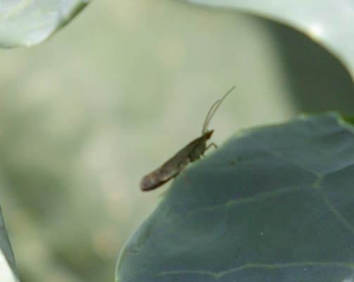 Diamondback moth (Plutella xylostella) on broccoli. Photo by Fk. in Japan, 2006.